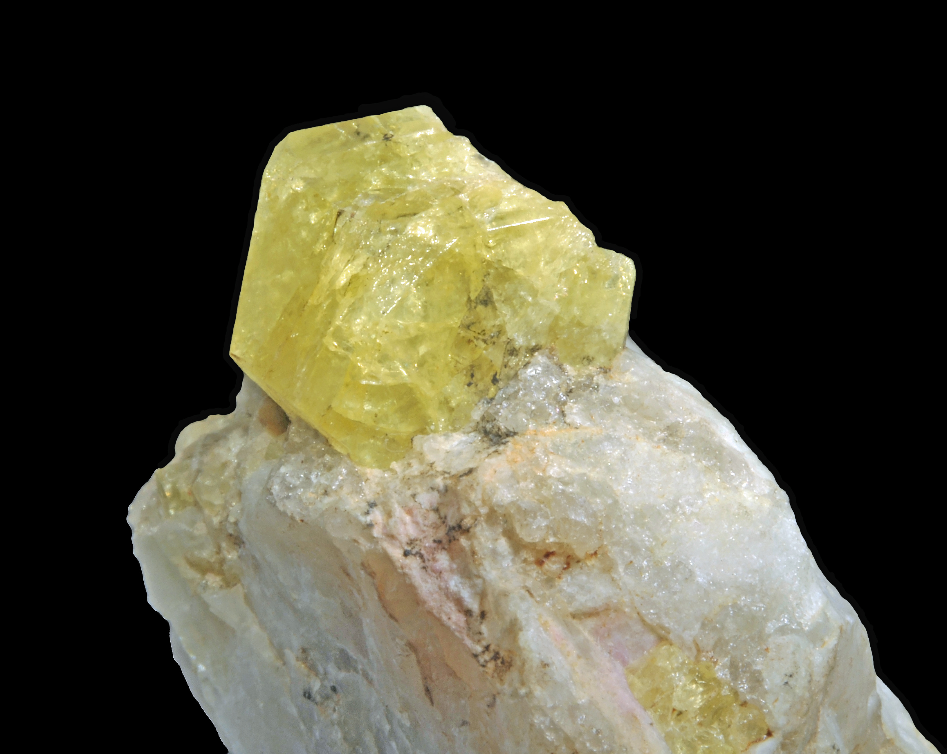 crystal of rhodizite : Tetezantsio village, Ampasagona, 12 km east of Antsongombato, FKT Antsentsindrano, Deptartementa Andrembesoa, Vakinankaratra region (Betafo - Antsirab region), Antananarivo Province, Madagascar - cristal : 12 mm